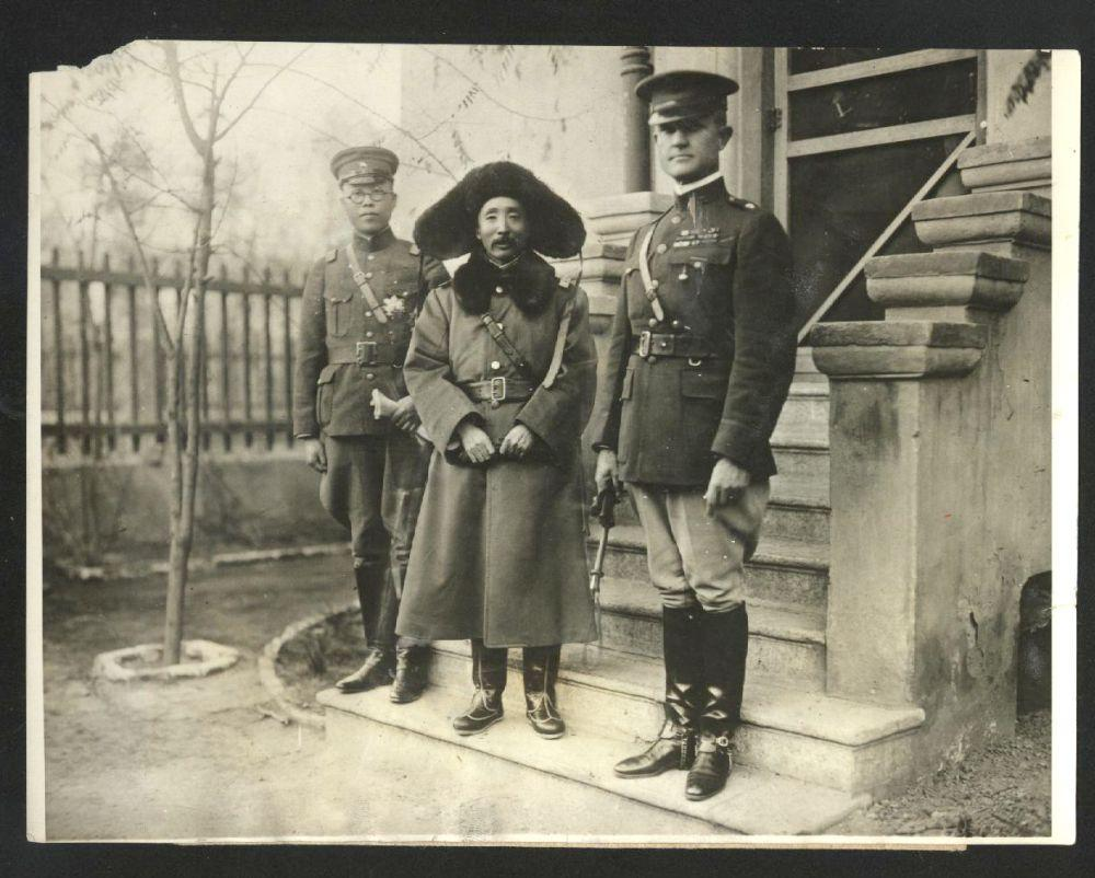 Zhang Xueliang, Zhang Zuolin and American General Connor of the 15th infantry regiment in 1926